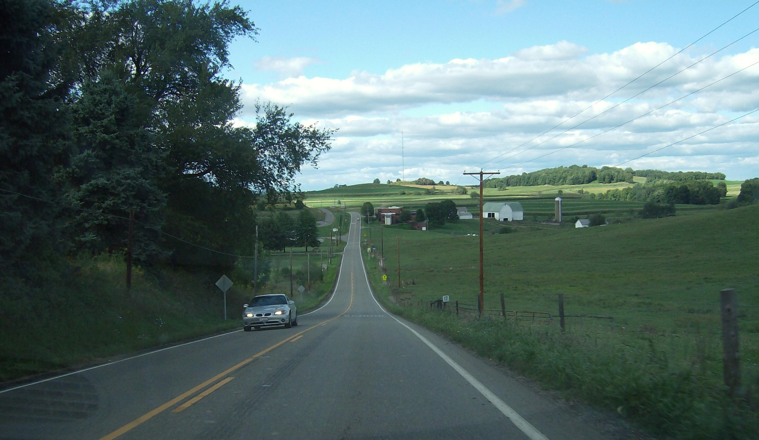 Along northbound State Route 9 in southwestern Washington Township, Carroll County, Ohio, United States. Picture taken between the village of Carrollton, the county seat of Carroll County, and the intersection with State Route 171.